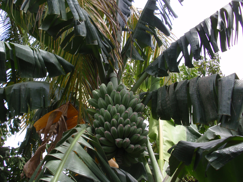 This is another banana tree in my garden, and this is the older "cousin" of our other banana tree. See that other "cousin" here: This was also growing beside Jalan Bundusan before the expansion process took place and now it is growing nicely in our garden. This banana bears fruit later than its younger "cousin".